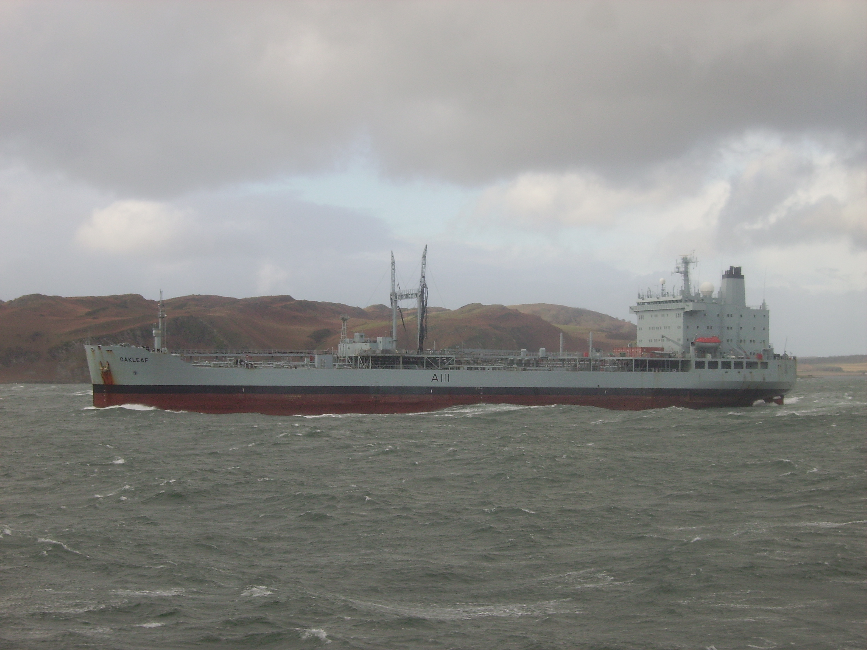 RFA Oakleaf (A111) in the River Clyde.